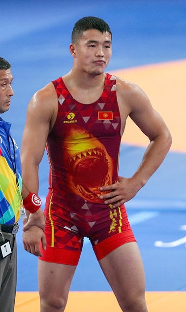 Wrestling at the 2018 Asian Games – Men's Greco-Roman 77 kg